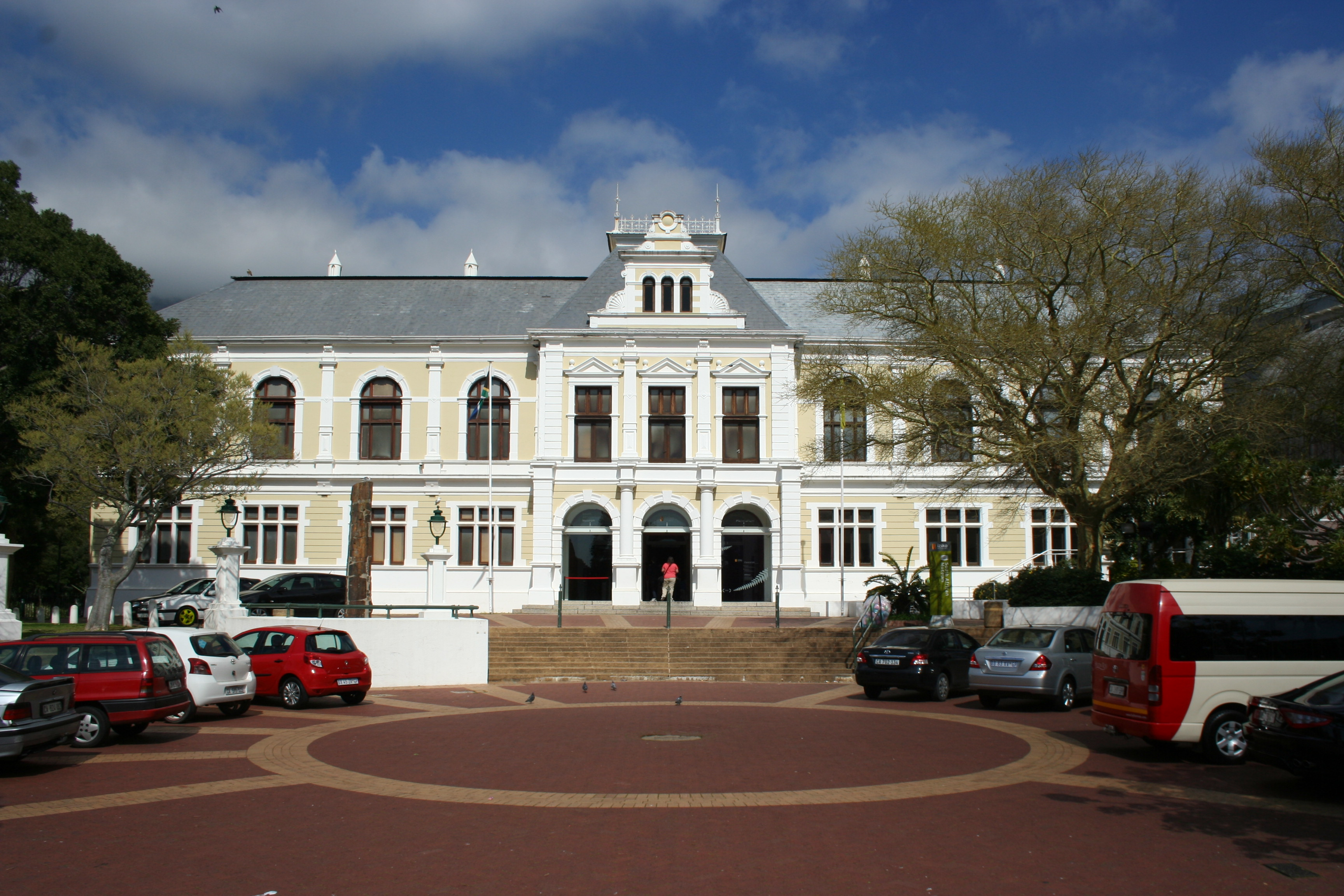 Iziko South Africa Museum front entrance at the Company Gardens This media shows a South African Protected Site with SAHRA file reference 9/2/018/0149.